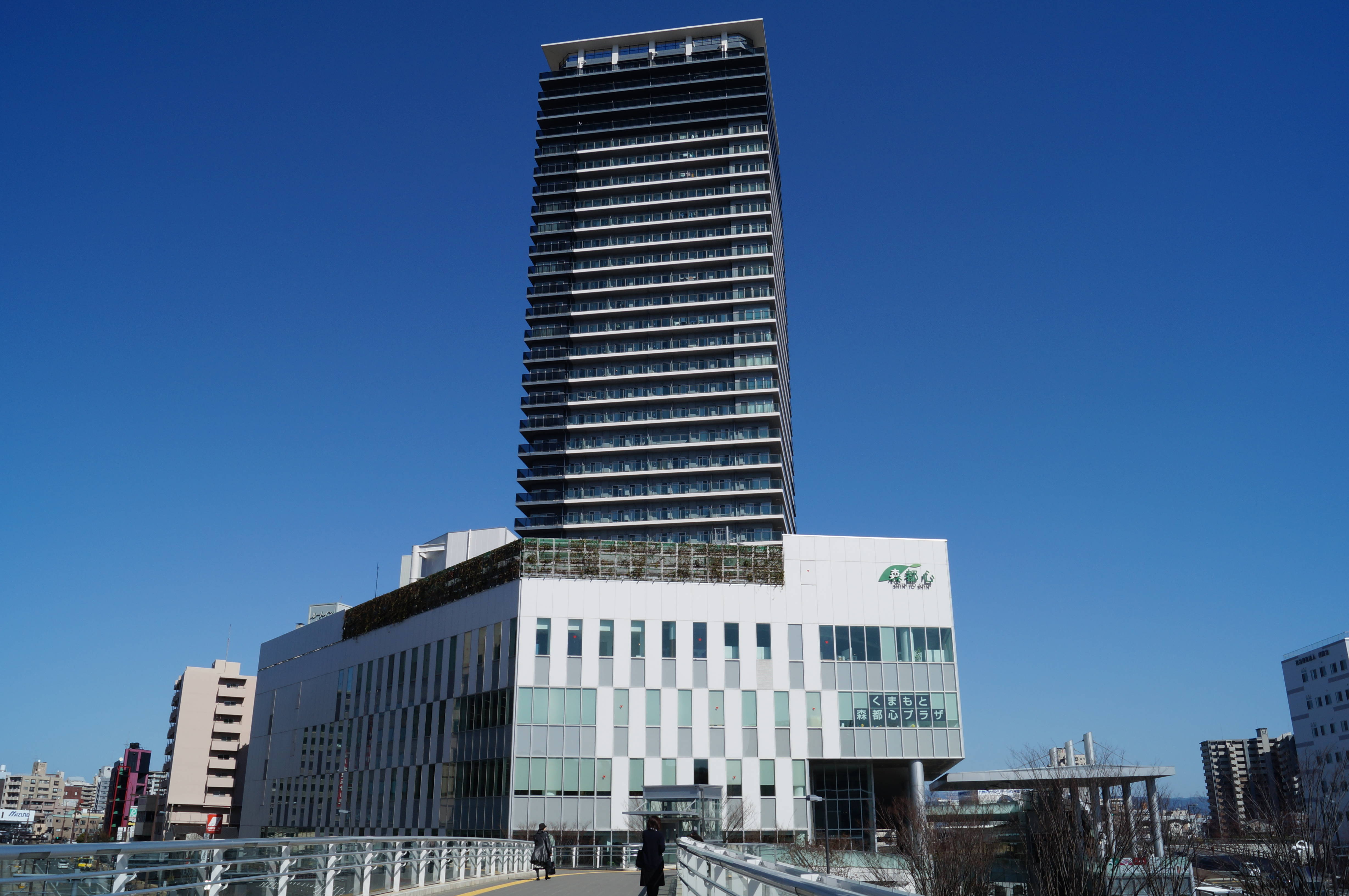 Kumamoto Shintoshin Plaza and The Kumamoto Tower